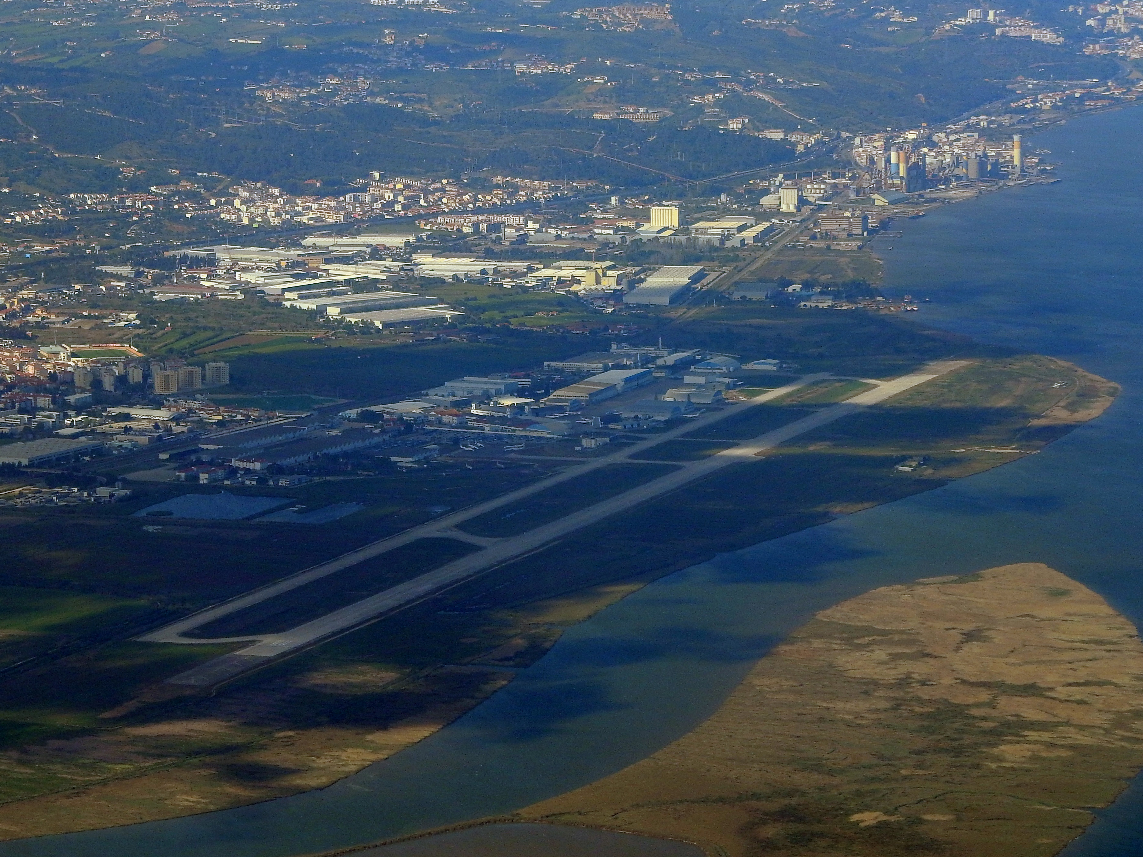 Alverca Airport in April 2019, Portugal.